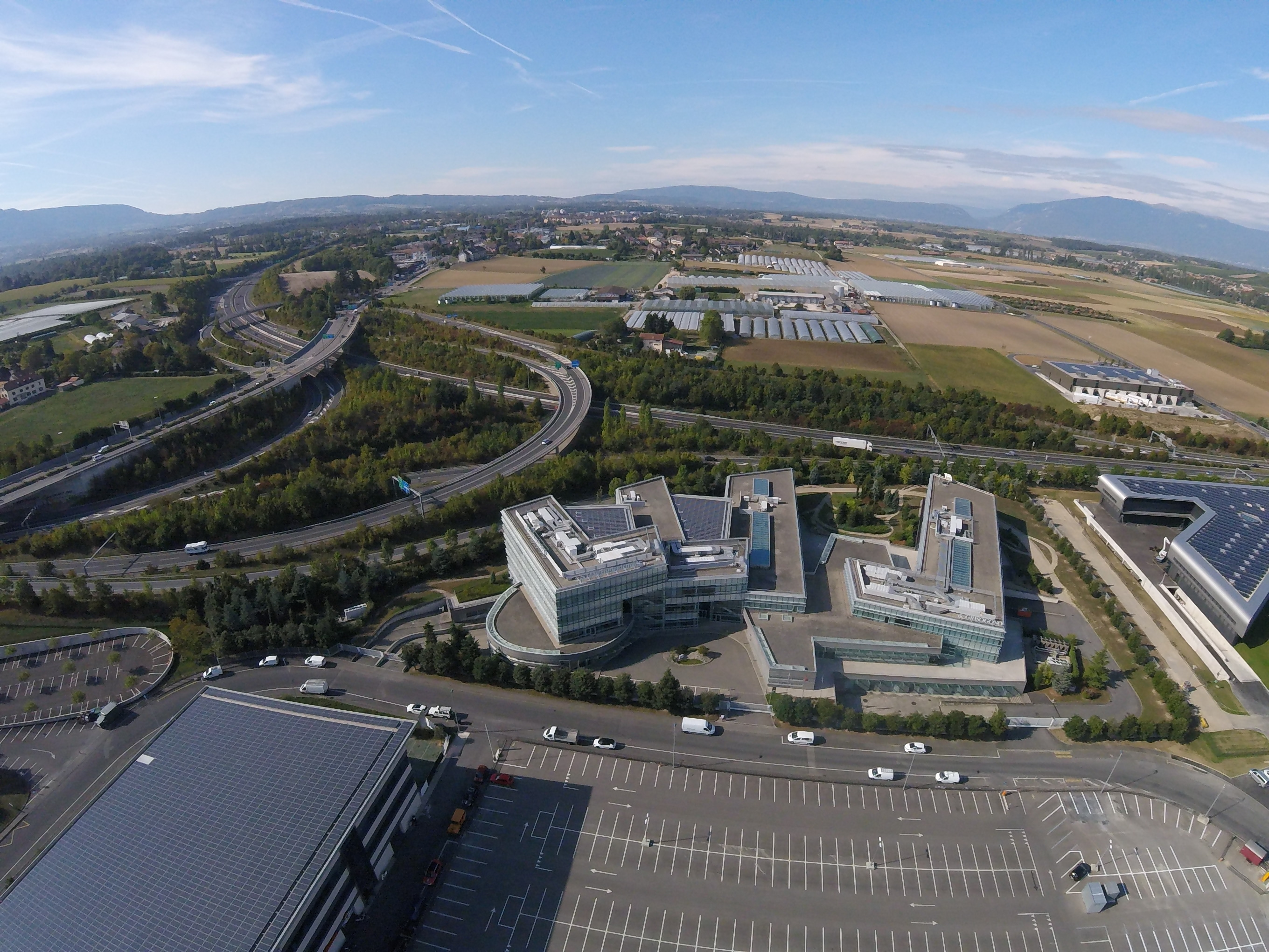 STMicroelectronics, a French-Italian multinational electronics and semiconductor manufacturer headquartered in Geneva, Switzerland.